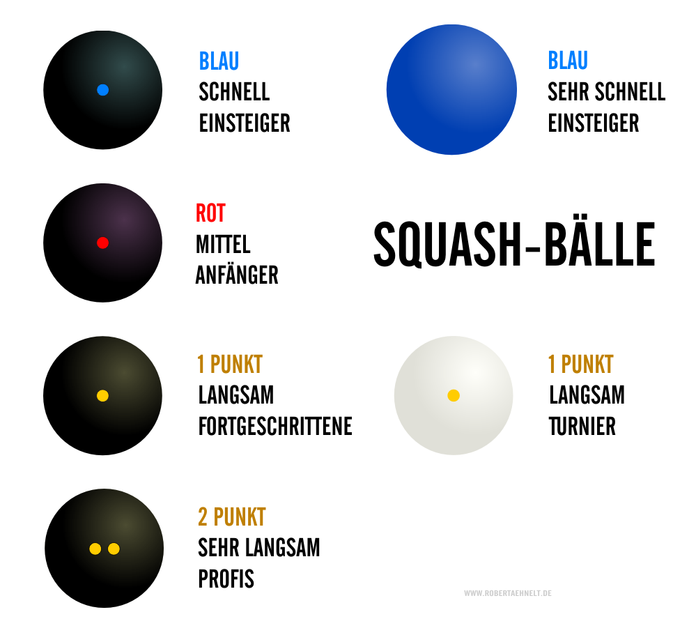 Squash Balls